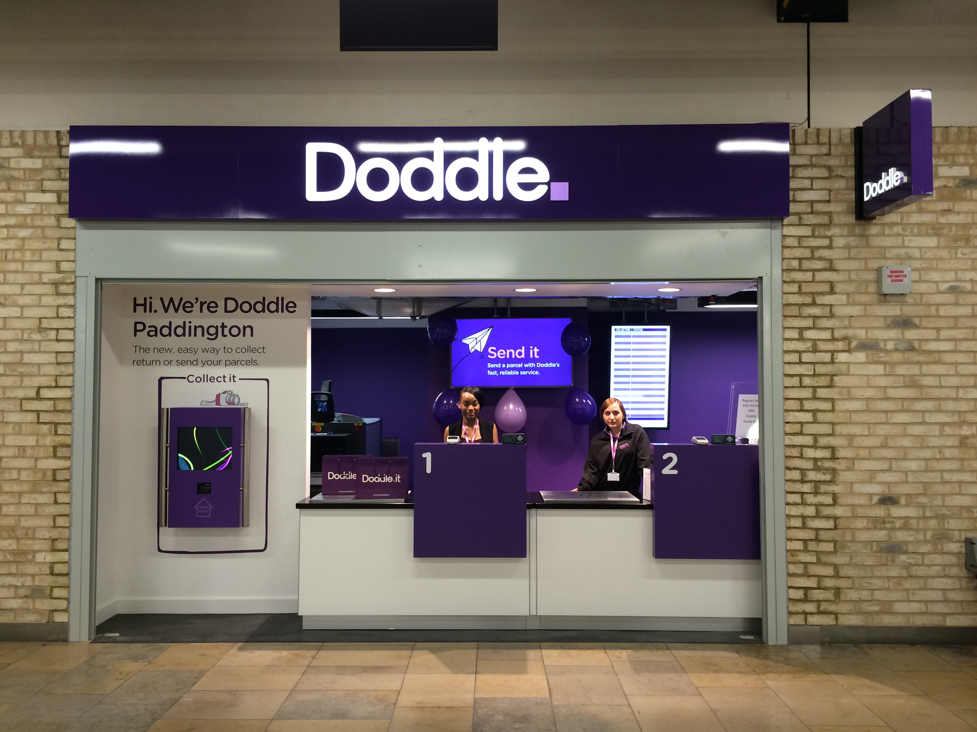 Doddle Paddington, pictured in 2016